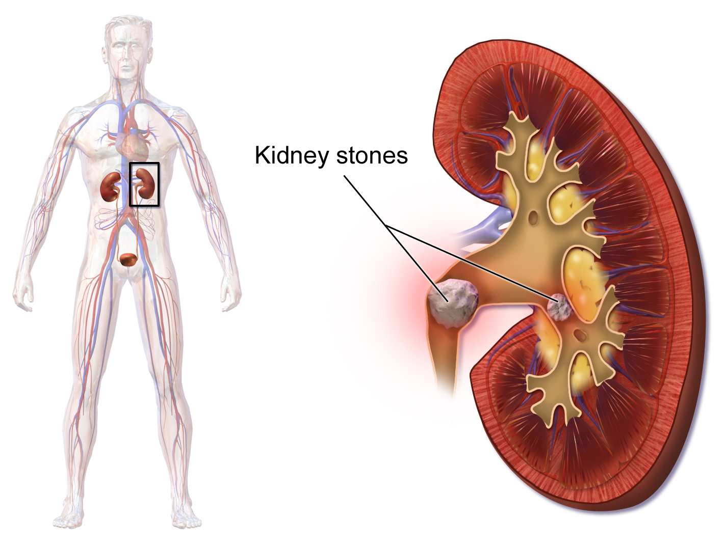 Kidney Stones. See a full animation of this medical topic.